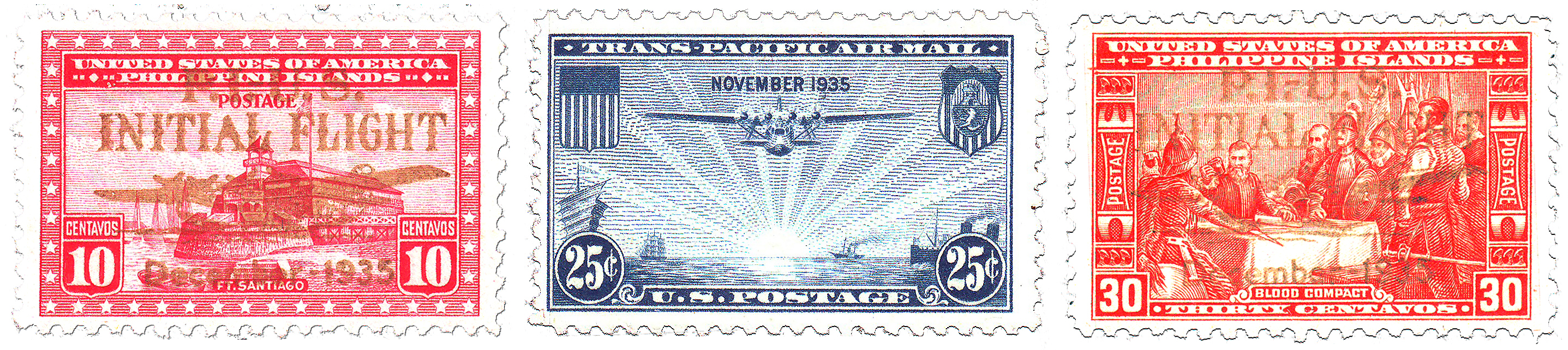 US and Philippine Islands (as US Commonwealth) Air Mail stamps issued for the first commercial Transpacific flights Westbound (US-PI) and Eastbound (PI-US) between San Francisco, CA (Alameda) and Manila, PI, November 22 - December 6, 1935. US: C20 "China Clipper" (blue) (1935, 25 cents) PI: "Ft. Santiago" (1935, 10 centavos) and "Blood Compact" (1935, 30 Centavos) overprinted in gold "PI - US INITIAL FLIGHT December - 1935" with silhouette of Martin M-130 Pan American Airways flying boat "China Clipper"